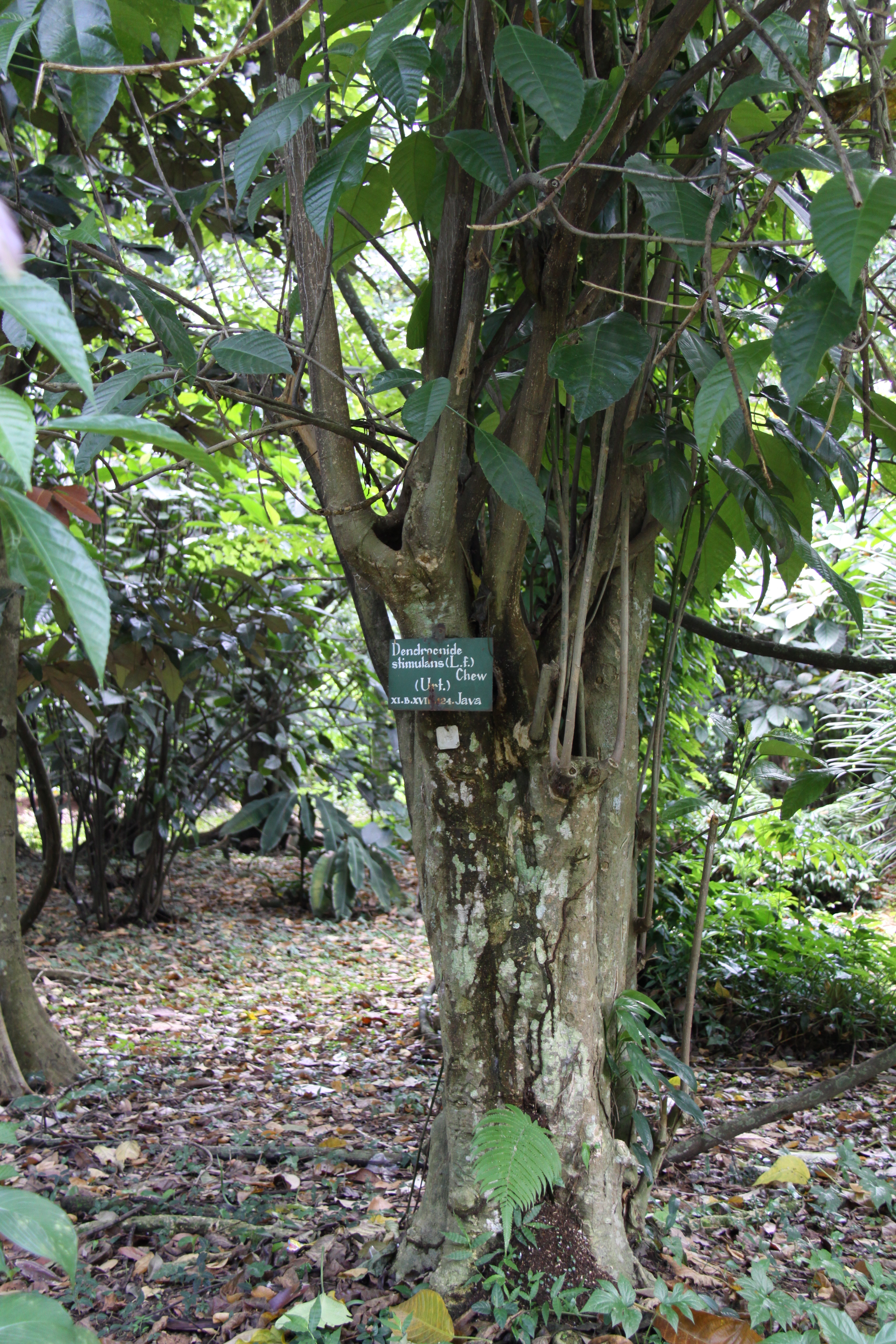 When I got in contact the leaves (not with this tree, but in secondary growth at Mt. Halimun), they stung through my trekking trousers and caused severe pain and the skin looked "burned & red" for more than one week; any contact with water was nearly unbearable....; eventually after 1 month the effects where vanishing. I will never forget this most powerful Nettle! more info (German): Dendrocnide stimulans (L. f.) CHEW (Nettle tree or stinging tree, Nesselbaum, jelatang api,Jalatong pulus (Sundanese), kemaduh sapi (Javanese), jelatang kayu (Sumatra)) Family: Urticaceae (nettles, Brennesselgewächse) Order: Rosales (unranked): Rosids (unranked): Eudicots (unranked): Angiosperms Kingdom: Plantae 2009-03-23 Bogor, W-Java, Indonesia IMG_4334